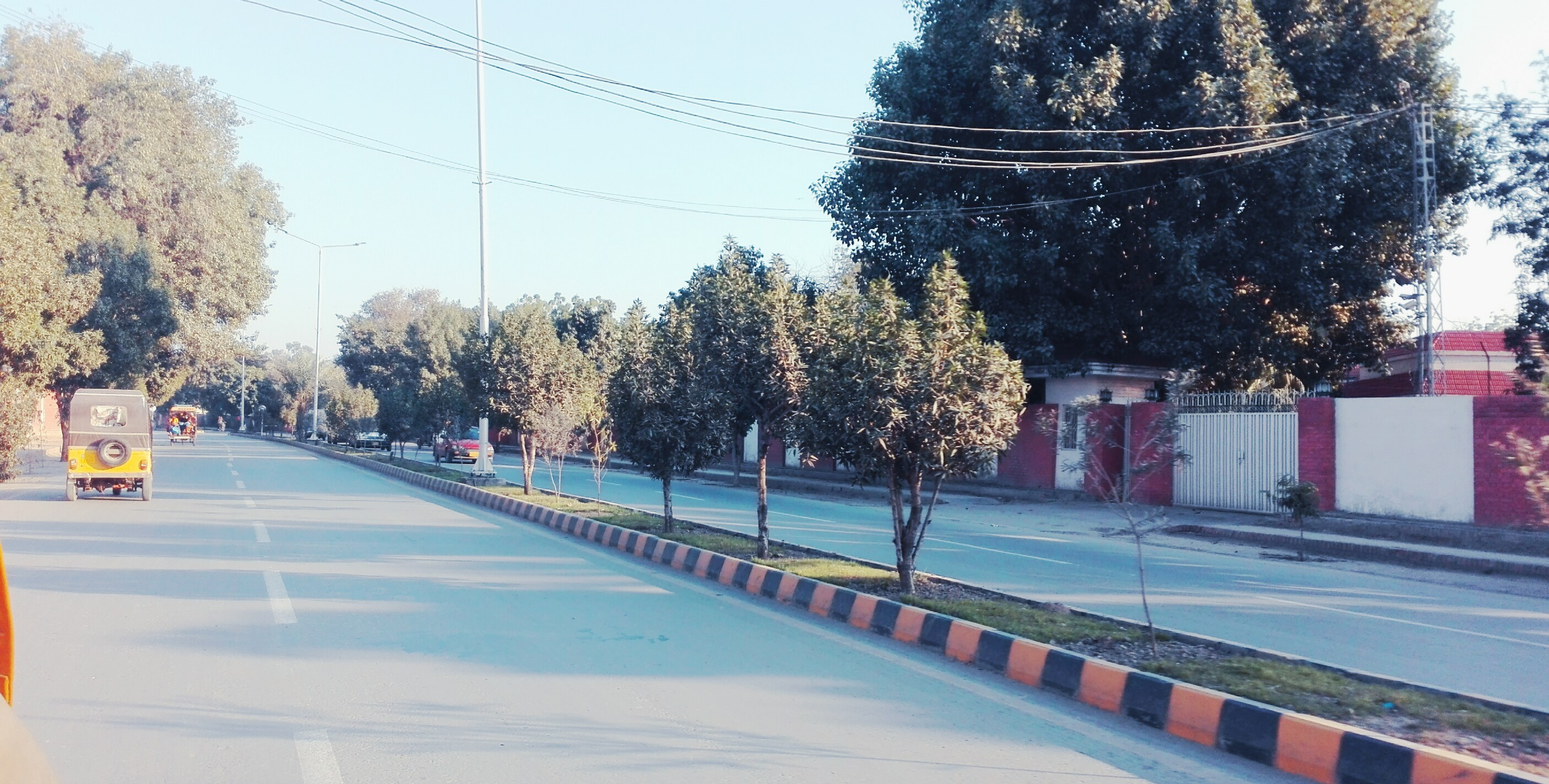 Heading towards DC office square Bahawalpur.